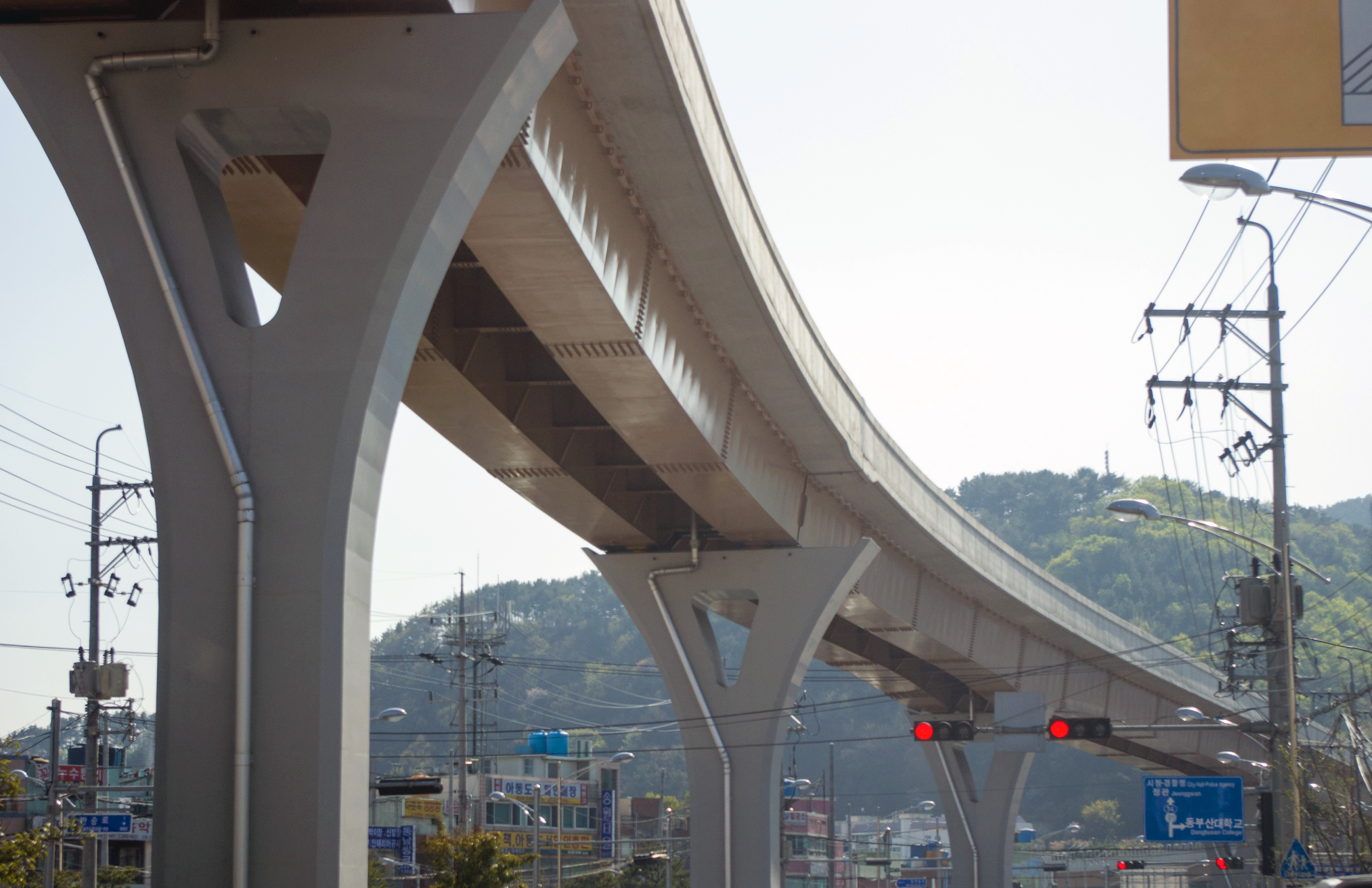 Underneath Busan Metro Line 4. Busan, South Korea. Photograph from Flickr; author Cameron Henderson; license of CC BY-SA 2.0 as indicated on Flickr, CC BY-SA 4.0 as indicated on original photo. Edited from original photograph (lighting, cropping, etc.).